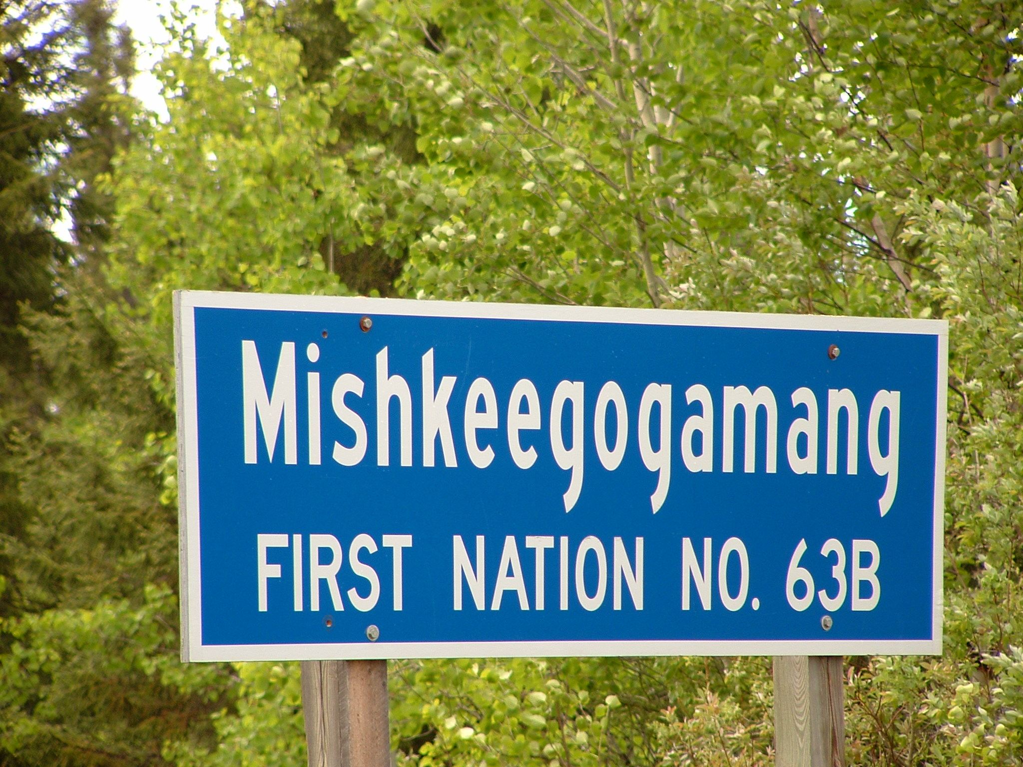 Mishkeegogamang boundary sign on Provincial Route 599